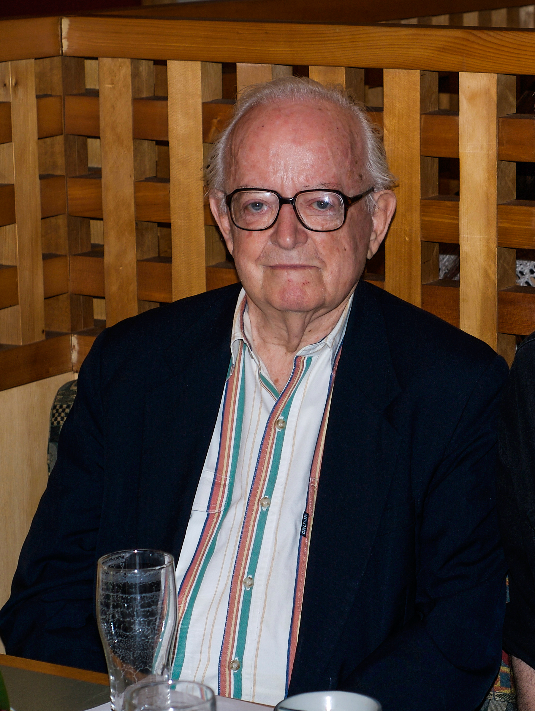 Edward George Seidesticker. A good man